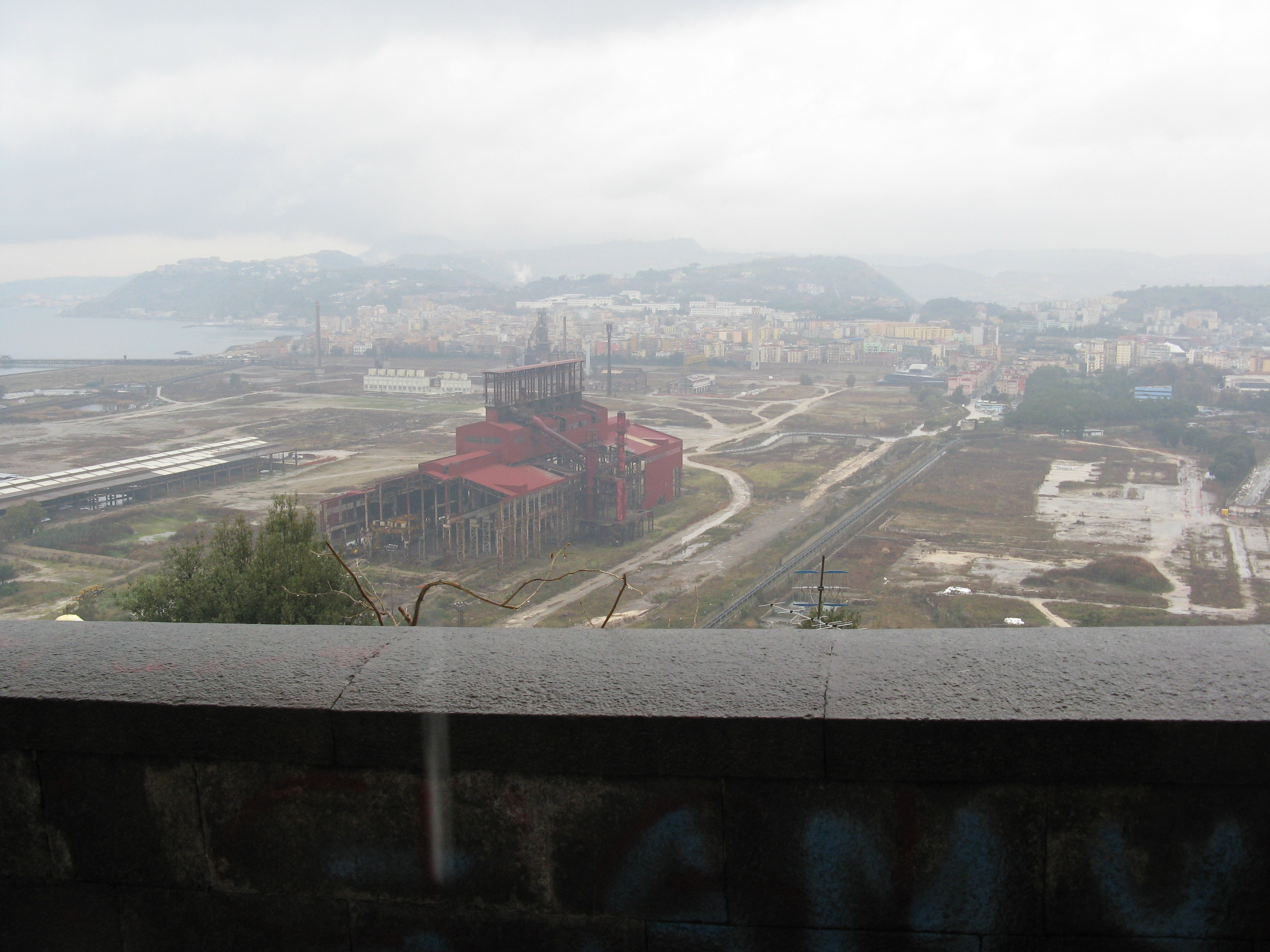 former italsider in bagnoli (naples)